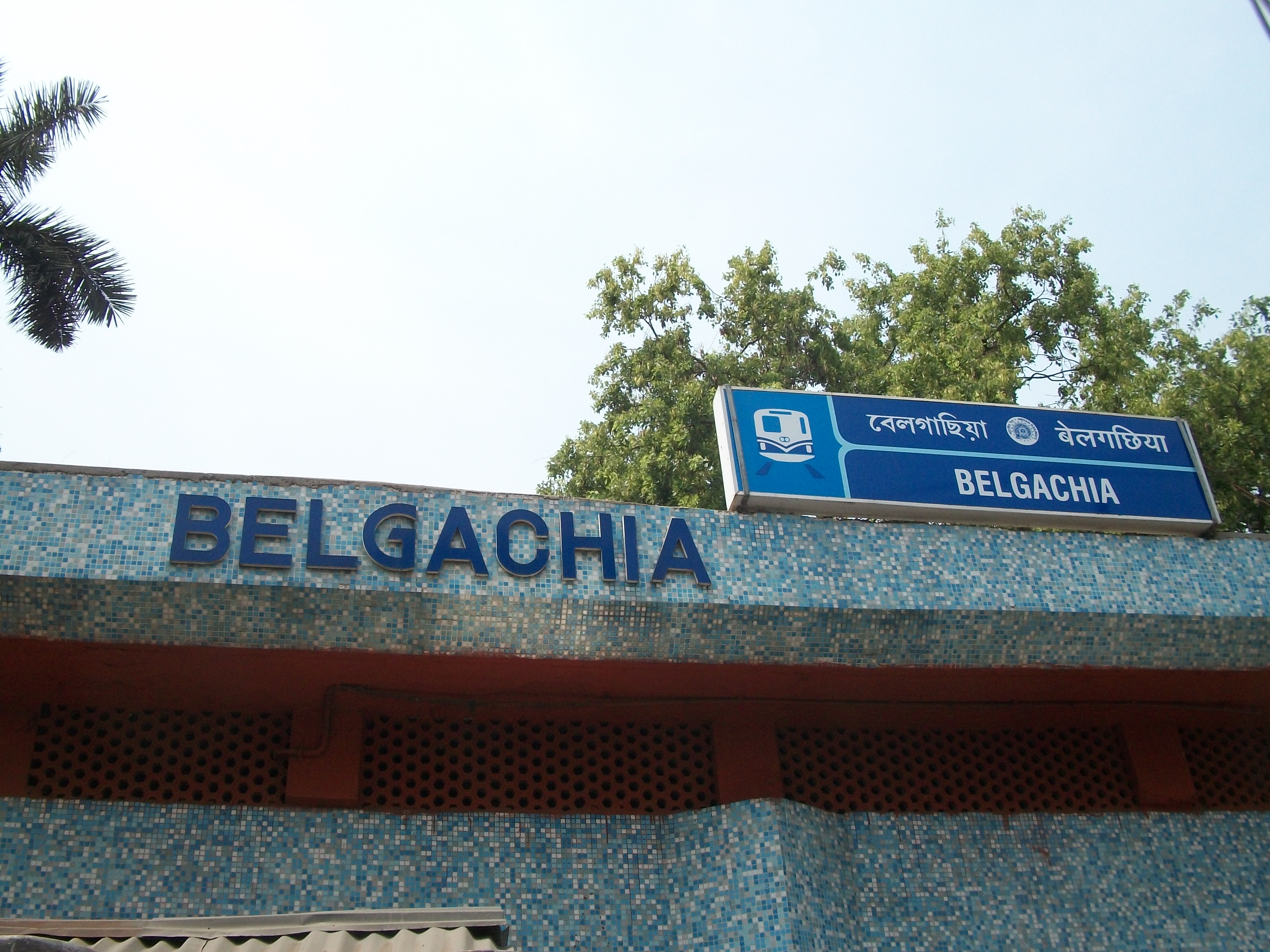 Belgachia Metro Station,Gate no.3,Calcutta Metro/Metro Railway Kolkata